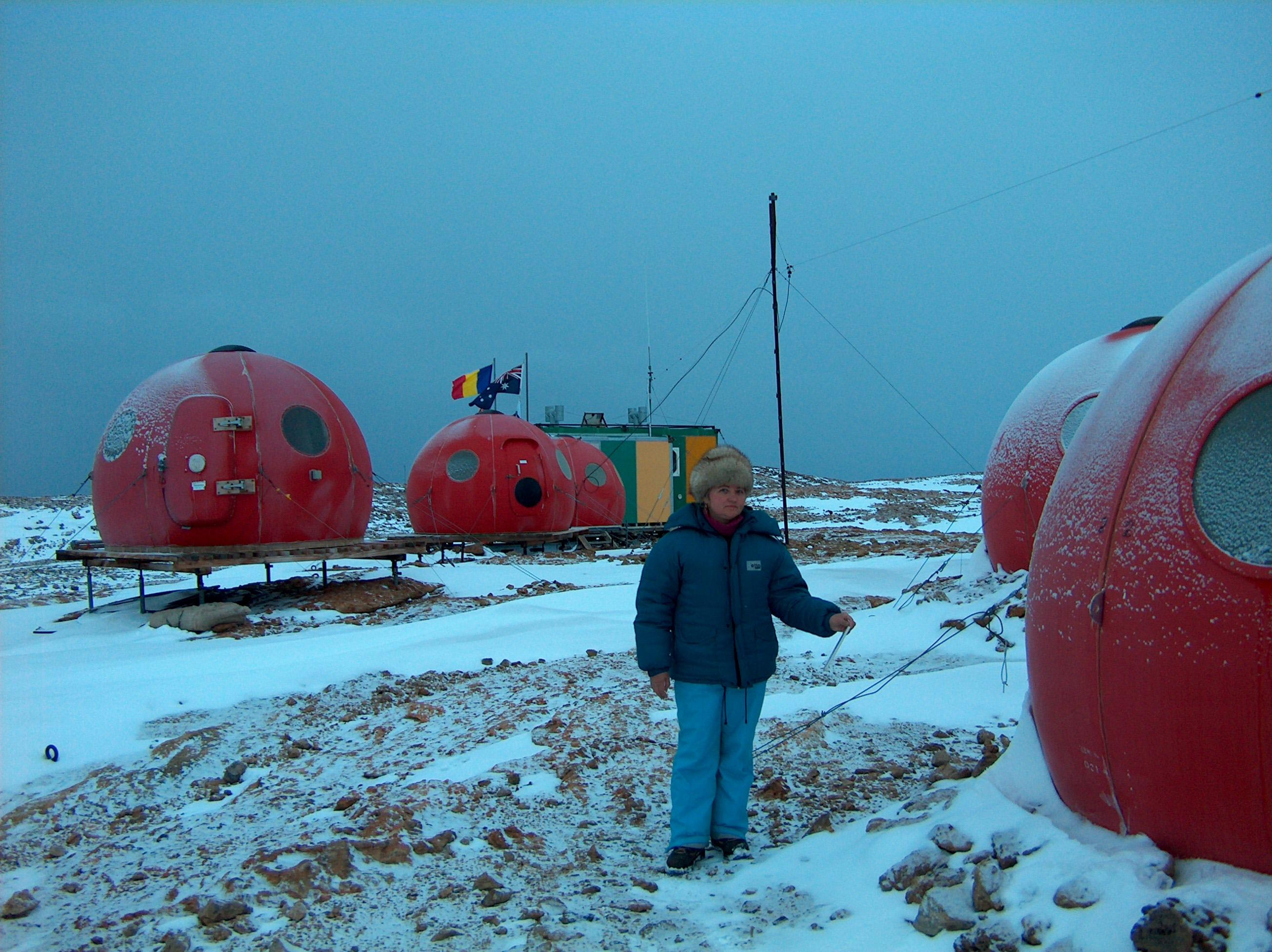 Air temperature measuring at Law-Racovita Base, Larsemann Hills, East Antarctica